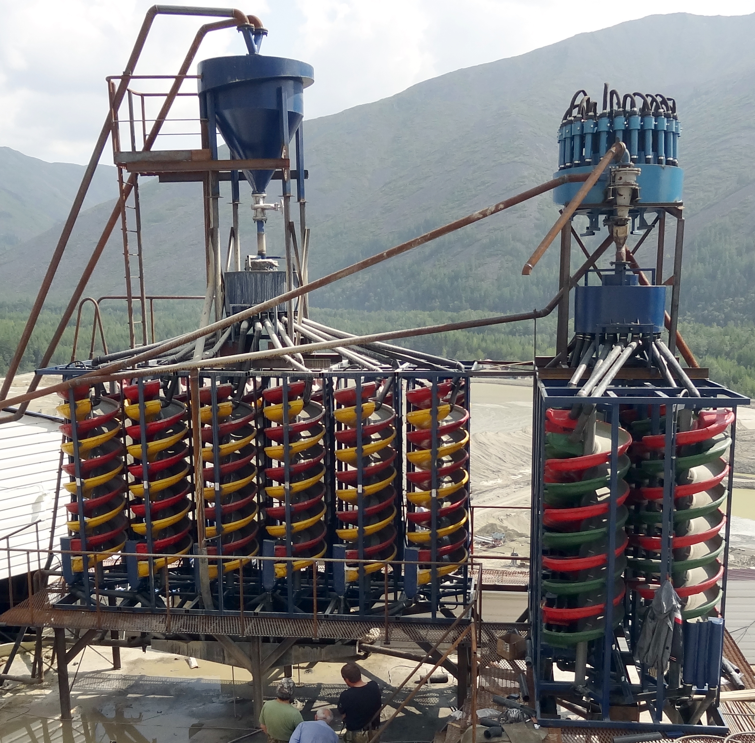 Spiral separators (Sn)